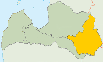 Latvia map - Latgale